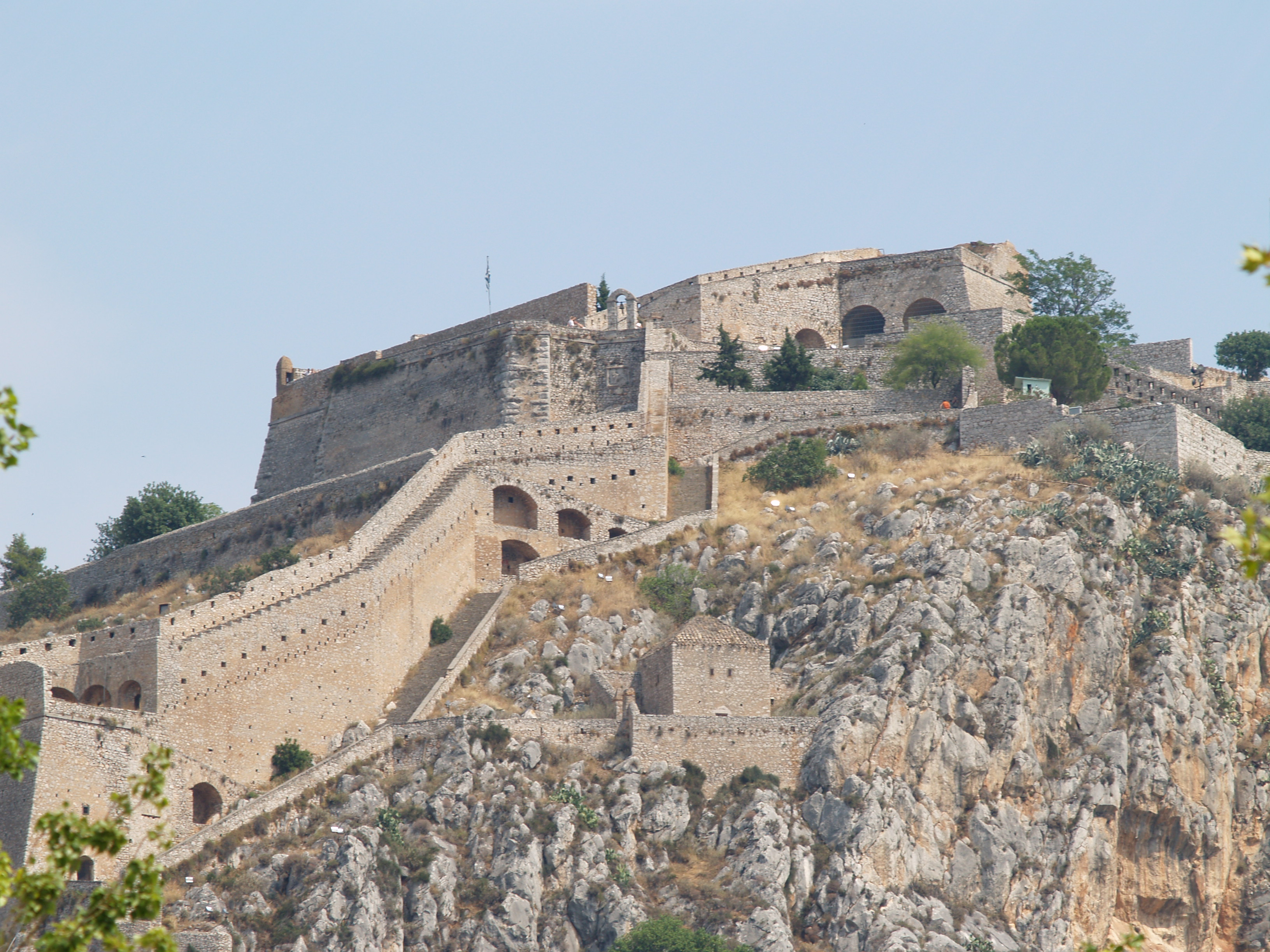 Within the extensive outer walls are several independent bastions located across the site at strategic points. The Agios Andreas Bastion stands at the top of the stairs that come up from town. Originally the home of the Garrison Commander, it is named after the small chapel that sits in its inner courtyard.